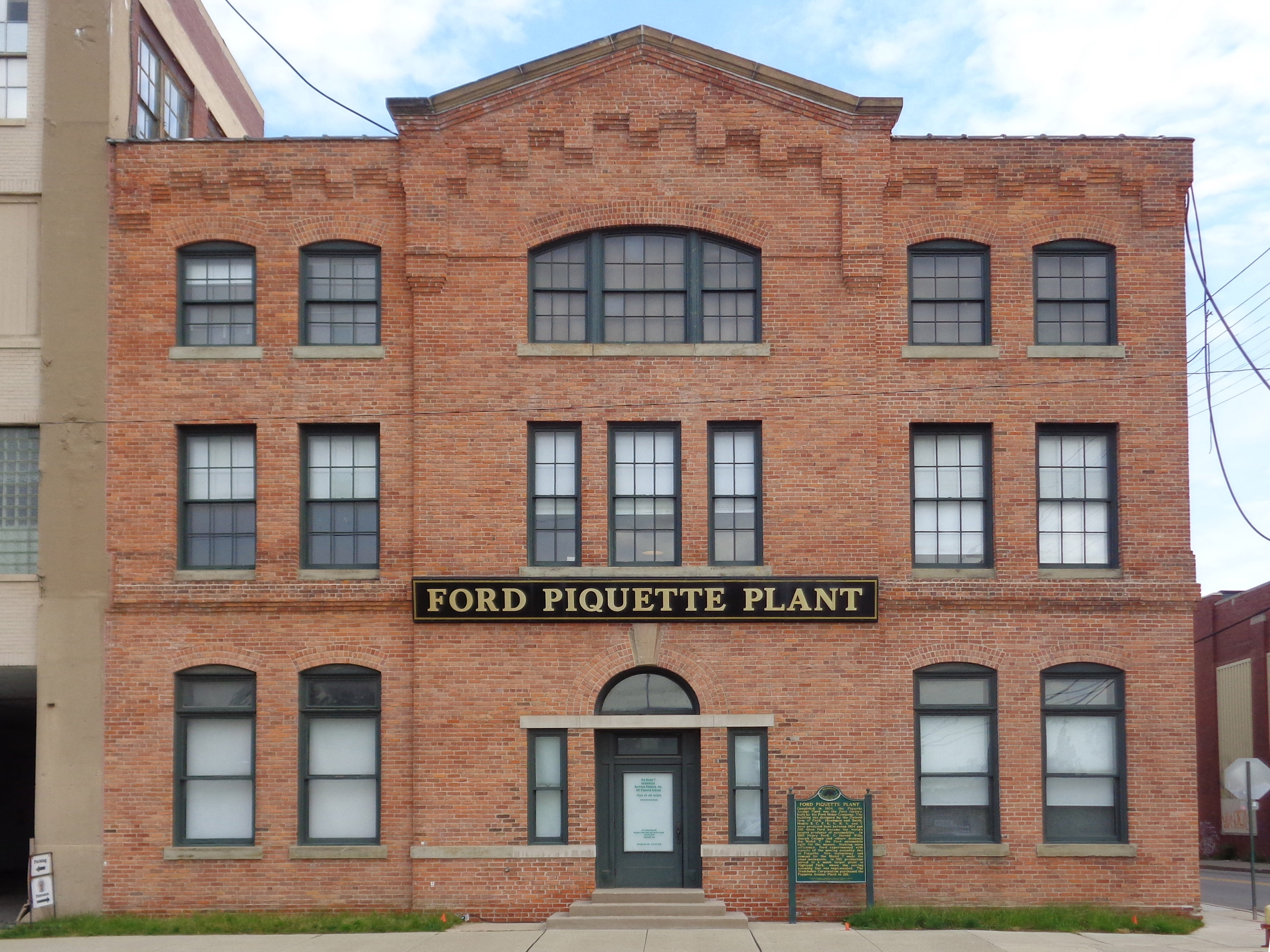 The front façade of the Ford Piquette Avenue Plant at 461 Piquette Street, Detroit, Michigan. Built in 1904, this building was the second home of the Ford Motor Company (and the oldest still standing), and was where the first Ford Model Ts were produced. Now a museum, it is the oldest, purpose-built car factory building in the world open to the public. The building's façade was fully restored and revealed to the public on September 27, 2008, the 100th anniversary of the first Ford Model T to roll out of the plant.